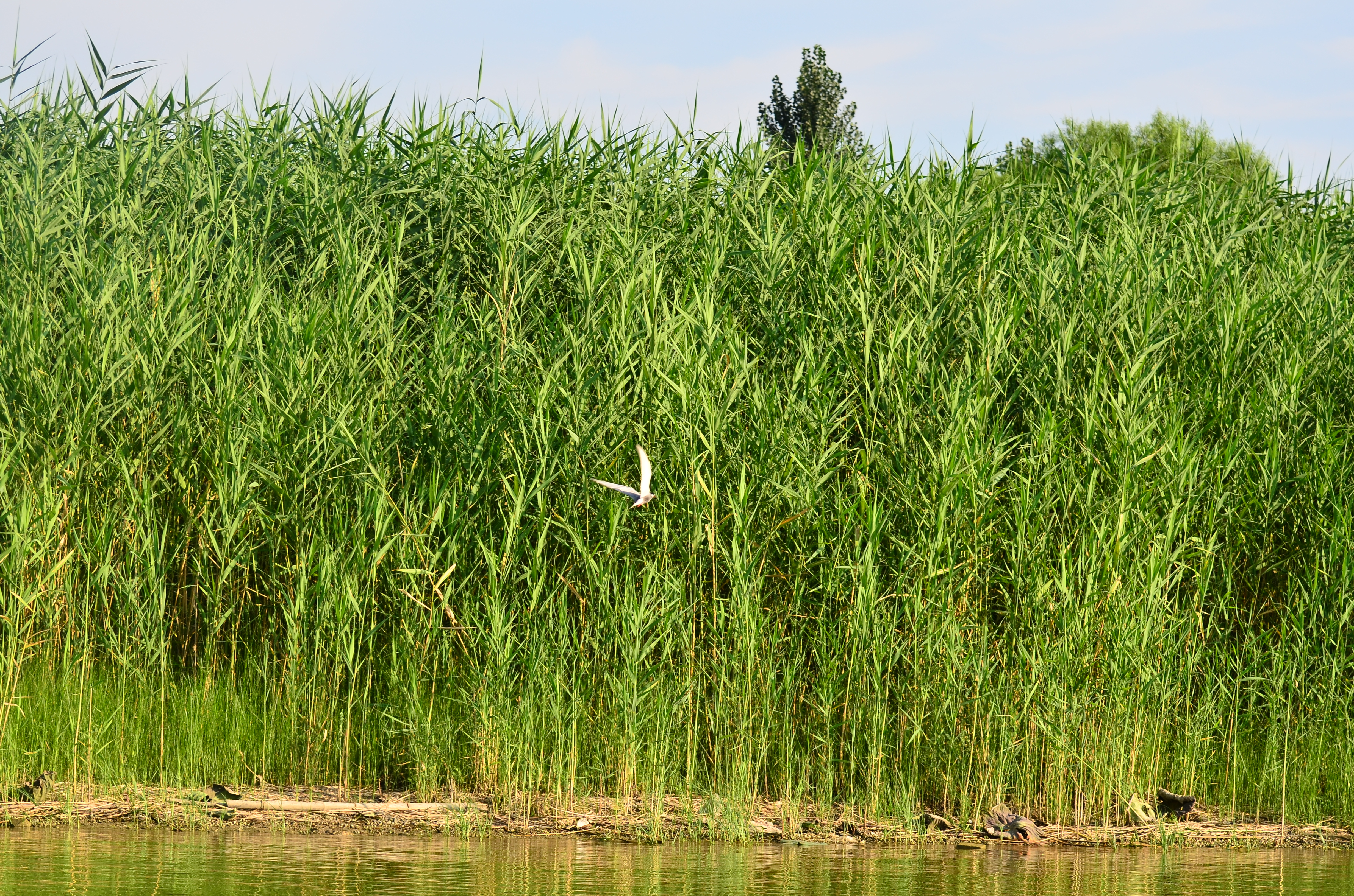 The reeds on Baiyangdian Lake,the largest fresh waterlake in North China.